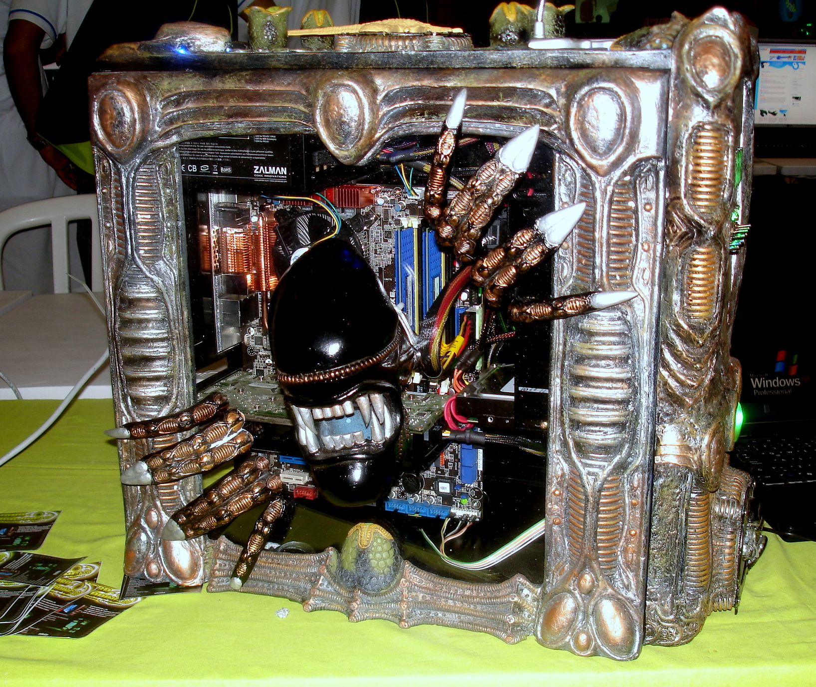 Casemod at Campus Party Brasil, 2009